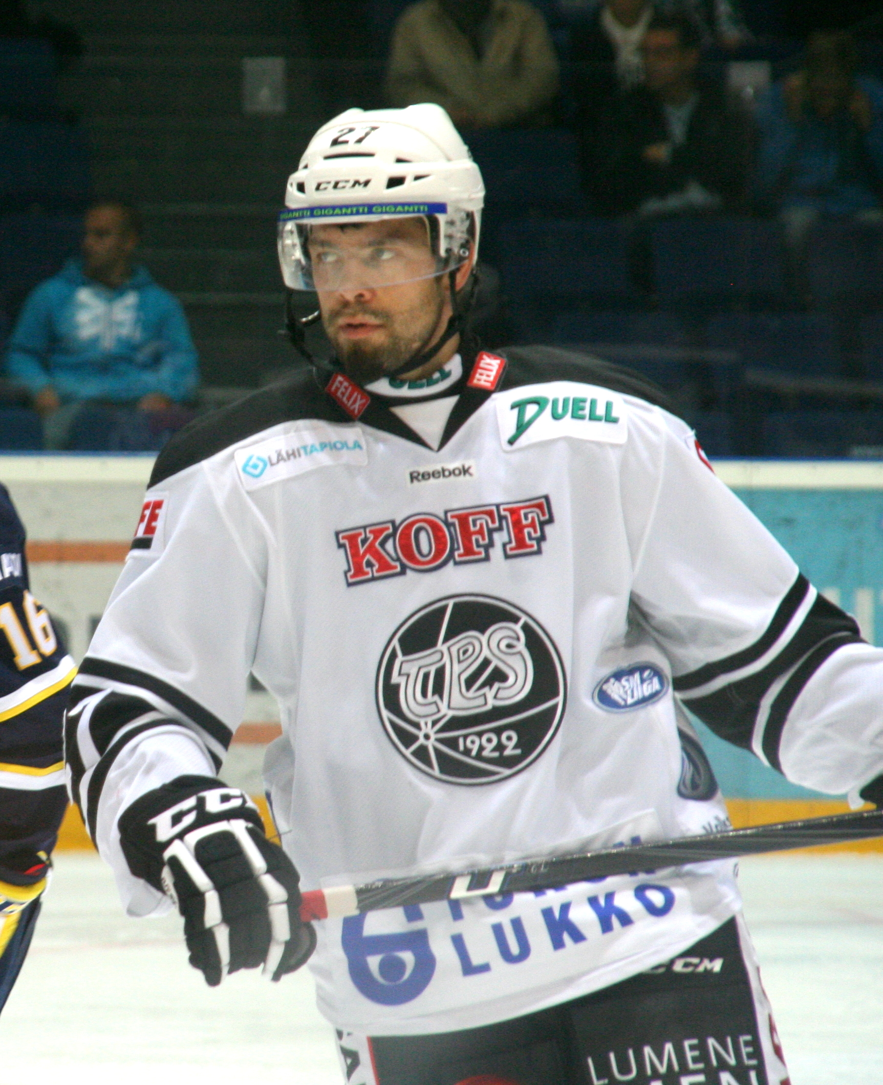 Ice Hockey Team Turun Palloseura's Attacker #27 Marko Virtala